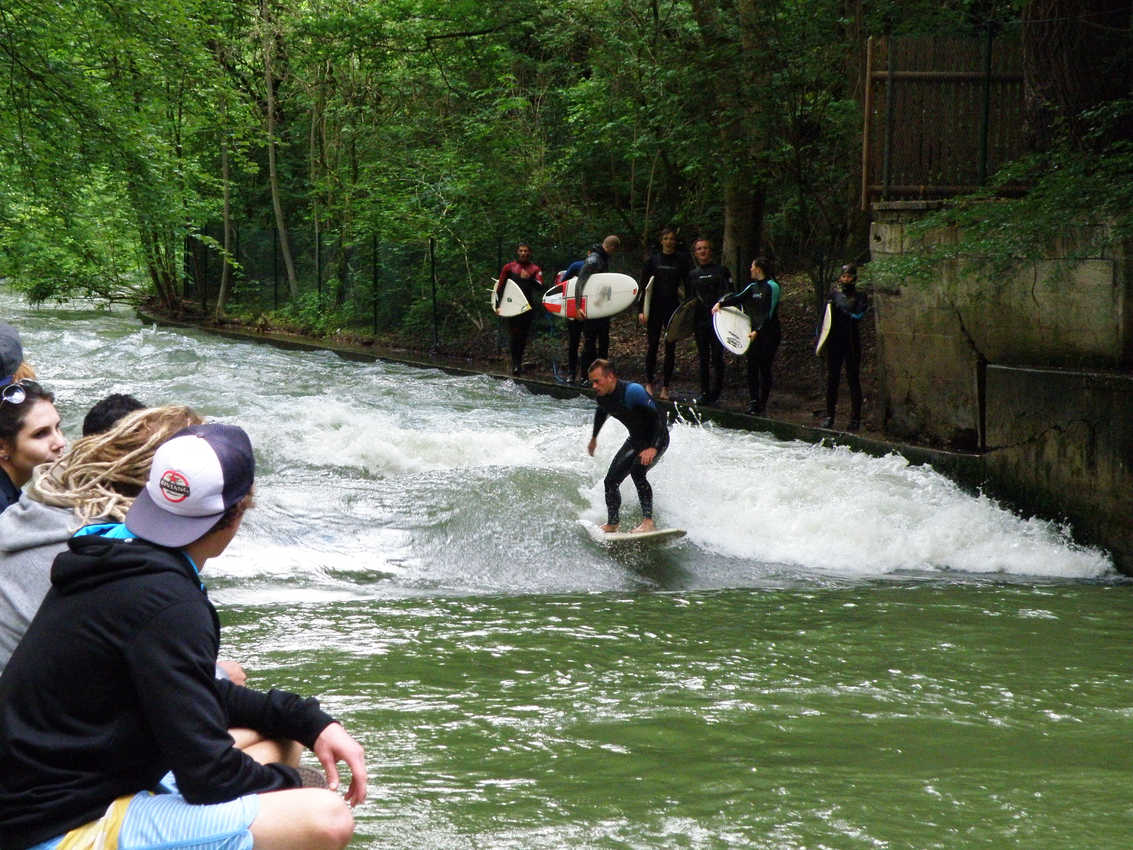 Photograph of someone surfing the wave in a stream in the English Garden in Munich, Germany as people watch. The English Garden is a large park in Munich with meadow and forested areas and several small rivers. At this point there is a man made device that creates a standing wave of water allowing a person to surf. While I watched, people were taking turns, some with more success than others. During my visit, it appeared that there was an honor system limit of about a minute after which successful surfers would drop off their board allowing the next person in line to enter the water.